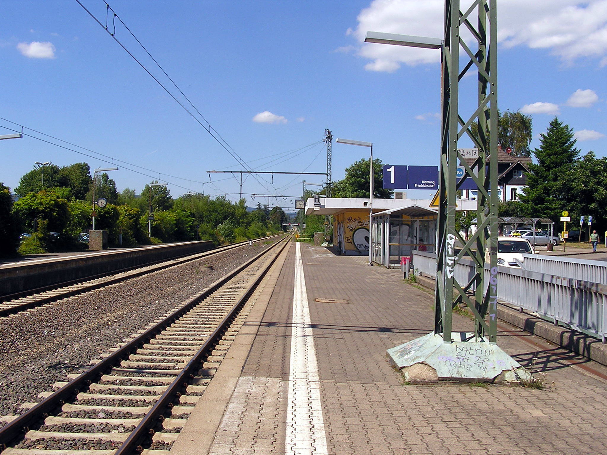 Northern part of the station Oberursel-Weißkirchen/Steinbach